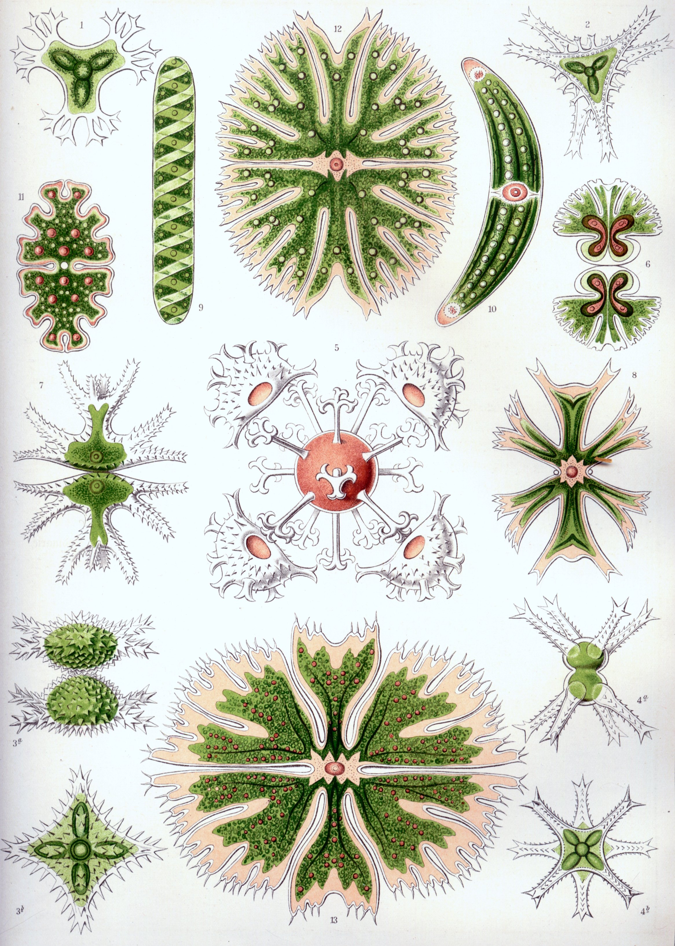 Enlarge image for index to numbers. Staurastrum furcatum (Brébisson) = Staurastrum furcatum (Brébisson ex Ralfs) Brébisson, single cell from above Staurastrum vestitum (Brébisson) = Staurastrum vestitum Ralfs, mating Staurastrum aculeatum (Ehrenberg) = Staurastrum aculeatum Meneghini ex Ralfs (3a: mating, from the side 3b: single cell, from above) Staurastrum paradoxum (Meyen) = Staurastrum paradoxum Meyen ex Ralfs (4a: mating, from the side 4b: mating, from above) Staurastrum spinosum (Brébisson) = Staurastrum furcatum (Brébisson ex Ralfs) Brébisson, spore immediately after mating Micrasterias denticulata (Brébisson) = Micrasterias denticulata Brébisson ex Ralfs, dividing cell from above Micrasterias trigemina (Haeckel) = Micrasterias trigemina E.H.P.A.Haeckel?, dividing cell from above Micrasterias melitensis (Ehrenberg) = Micrasterias melitensis G.G.A.Meneghini / Micrasterias furcata C.Agardh ex Ralfs?, single cell from above Spirotaenia condensata (Brébisson) = Spirotaenia condensata Brébisson ex Ralfs, single cell from the side Closterium costatum (Corda) = Closterium costatum Corda ex Ralfs, single cell from above Euastrum pecten (Ehrenberg) = Euastrum pecten C.G.Ehrenberg, single cell from above Euastrum agalma (Haeckel) = Euastrum agalma E.H.P.A.Haeckel?, single cell from above Euastrum apiculatum (Ehrenberg) = Micrasterias apiculata Meneghini ex Ralfs, single cell from above